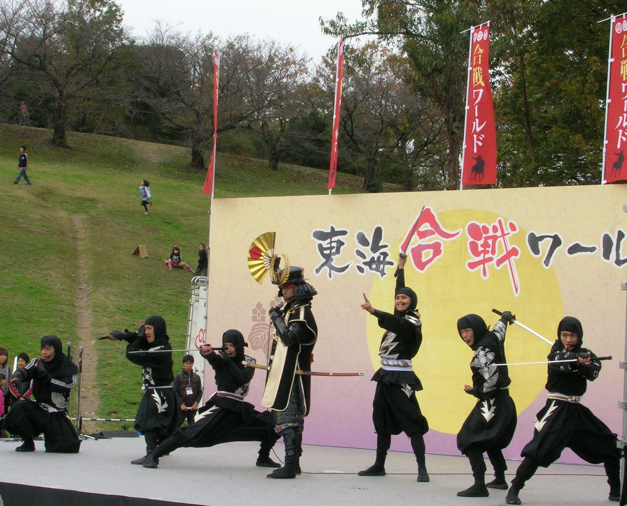 Tokugawa Ieyasu and Hattori Hanzō and the Ninjas(Founder members) in "Tōkai Kassen World 2015". Loc: Ōdaka Ryokuchi, Nagoya city, Aichi Prefecture, Japan. ja:「東海合戦ワールド2015」での徳川家康と服部半蔵忍者隊（初代メンバー） 撮影場所 愛知県名古屋市・大高緑地